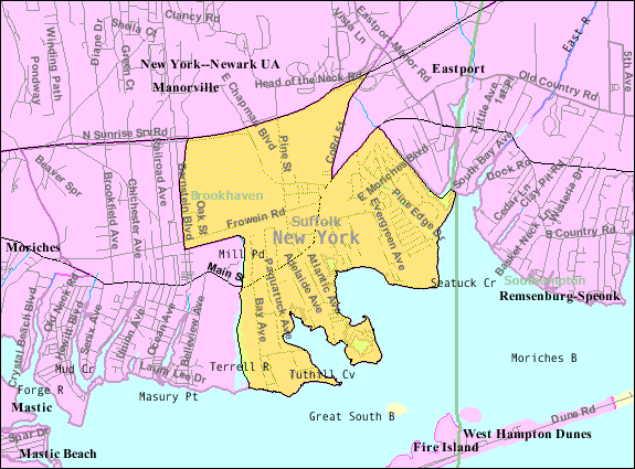 U.S. Census 2000 reference map for East Moriches